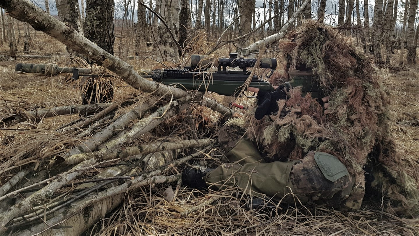 Italian Army sniper using a ProApto Ghillie during the NATO operation ICE1901